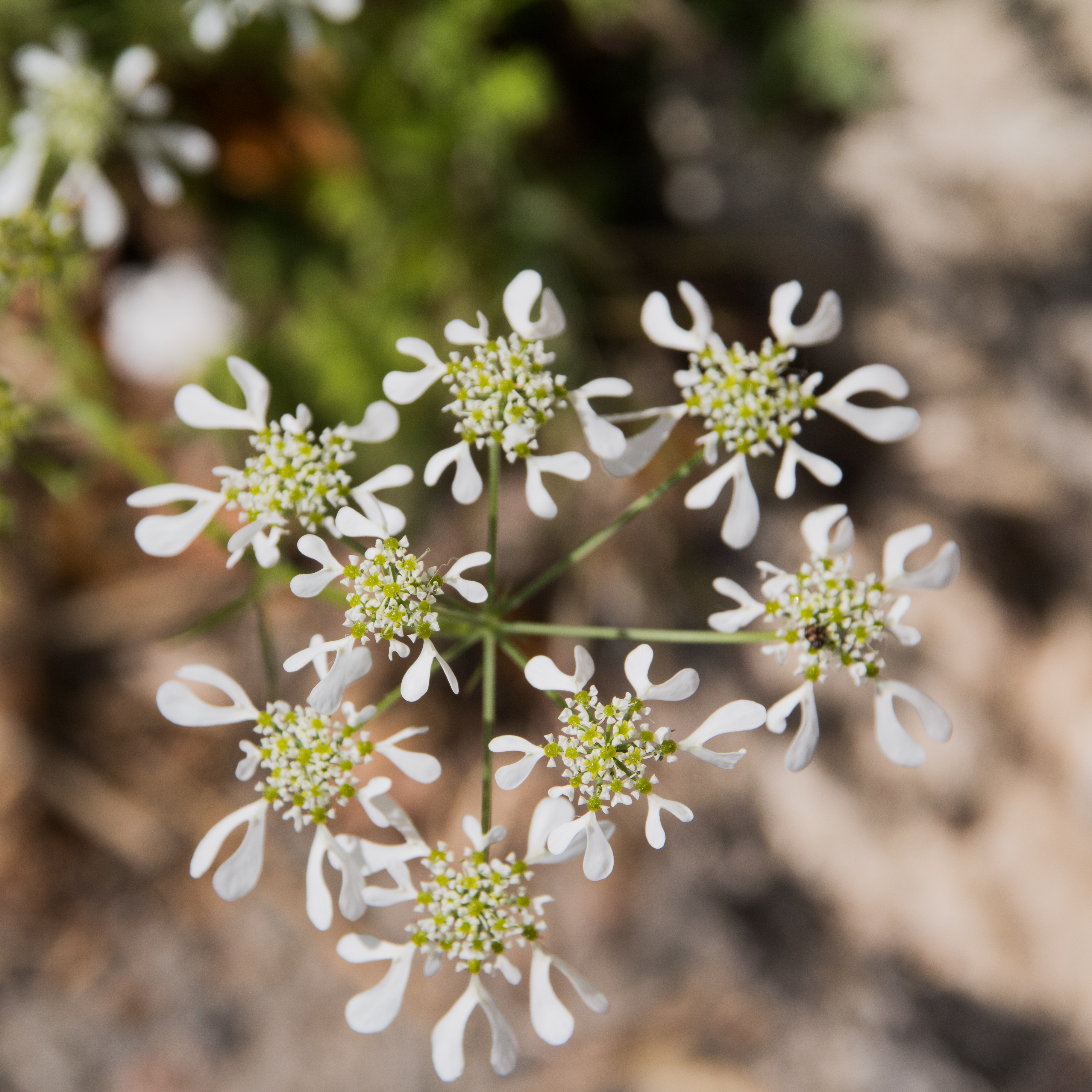 Hartworts